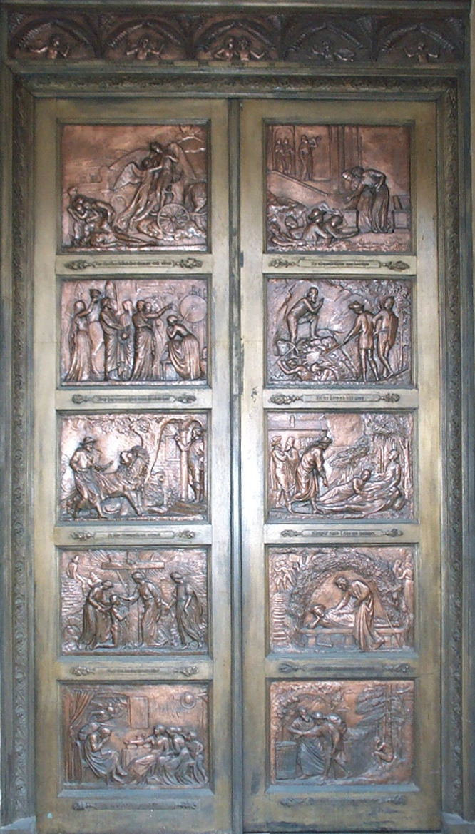 The doors of the Bunyan Meeting Church. Made of copper on Bronze by Frederick Thrupp (1812-1895). Modelled on the Baptistry doors at Florence, but showing scenes from John Bunyan's "Pilgrims Progress". Donated in 1876(?) by the Duke of Bedford.